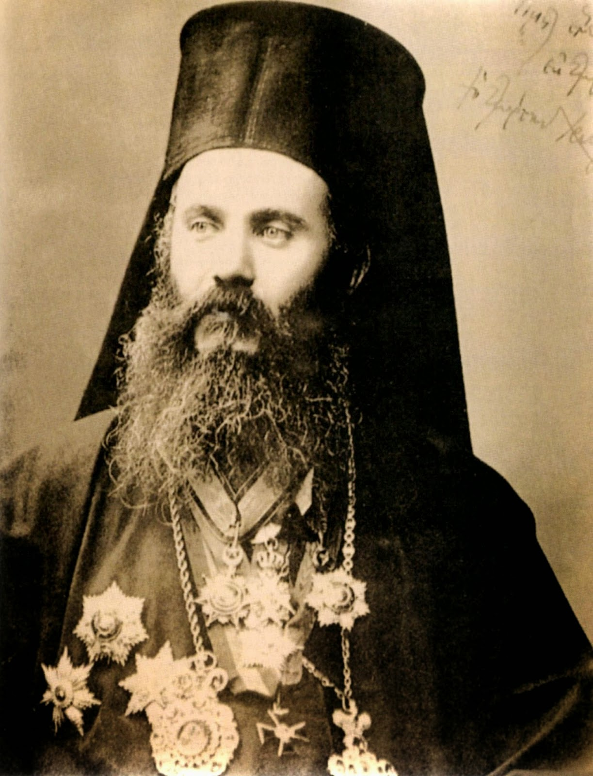 Saint Chrysostomos Kalafatis, Metropolitan of Drama (1902-1910) and Smyrna (1910-1922).